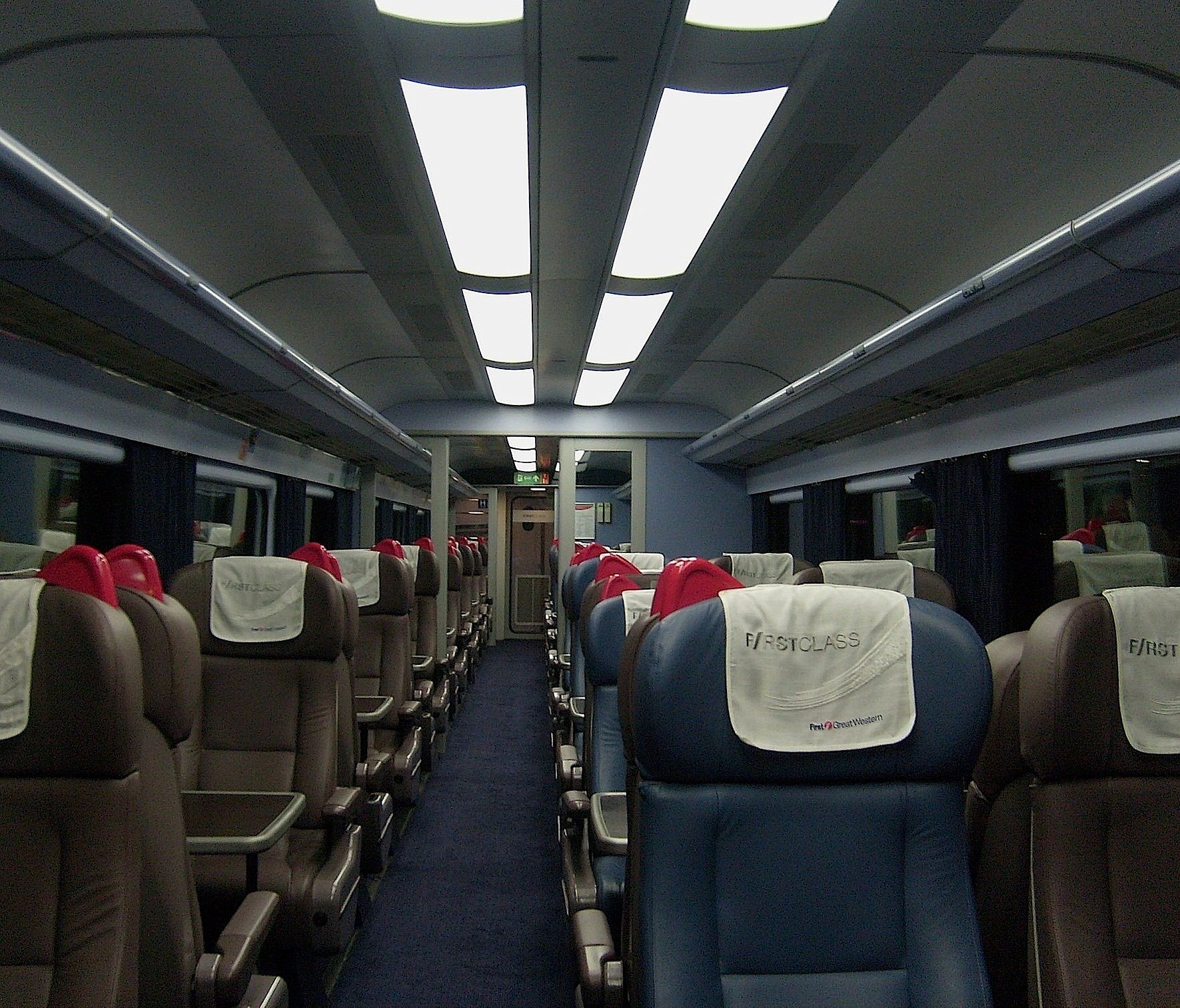 The interior of refurbished First Class aboard a First Great Western TF vehicle.